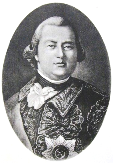 Nikolay Andreevich Korff (1710-1766) russian general Governor of S-Peterburg